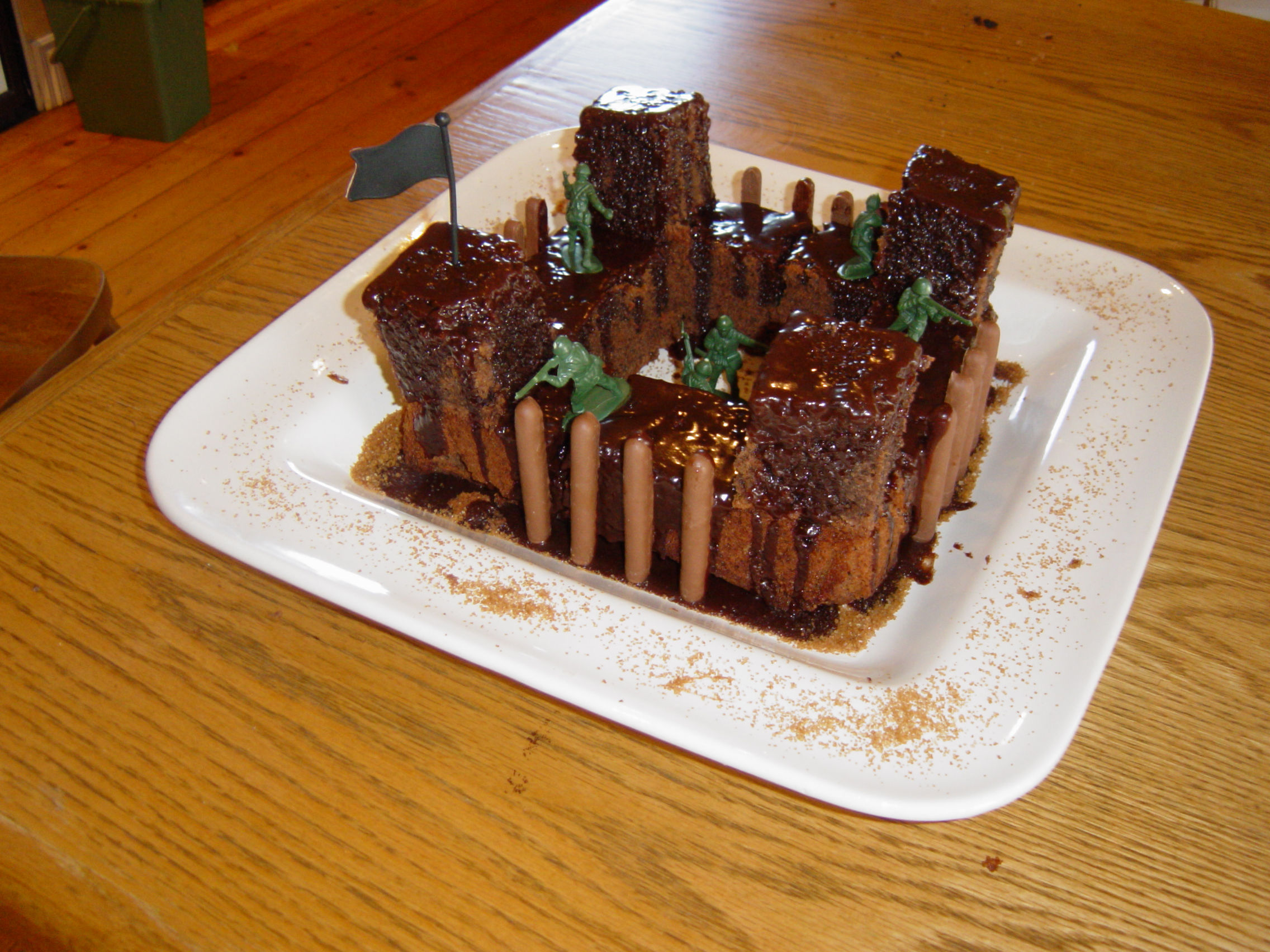 Chocolate cake for its Wikibooks Cookbook article.